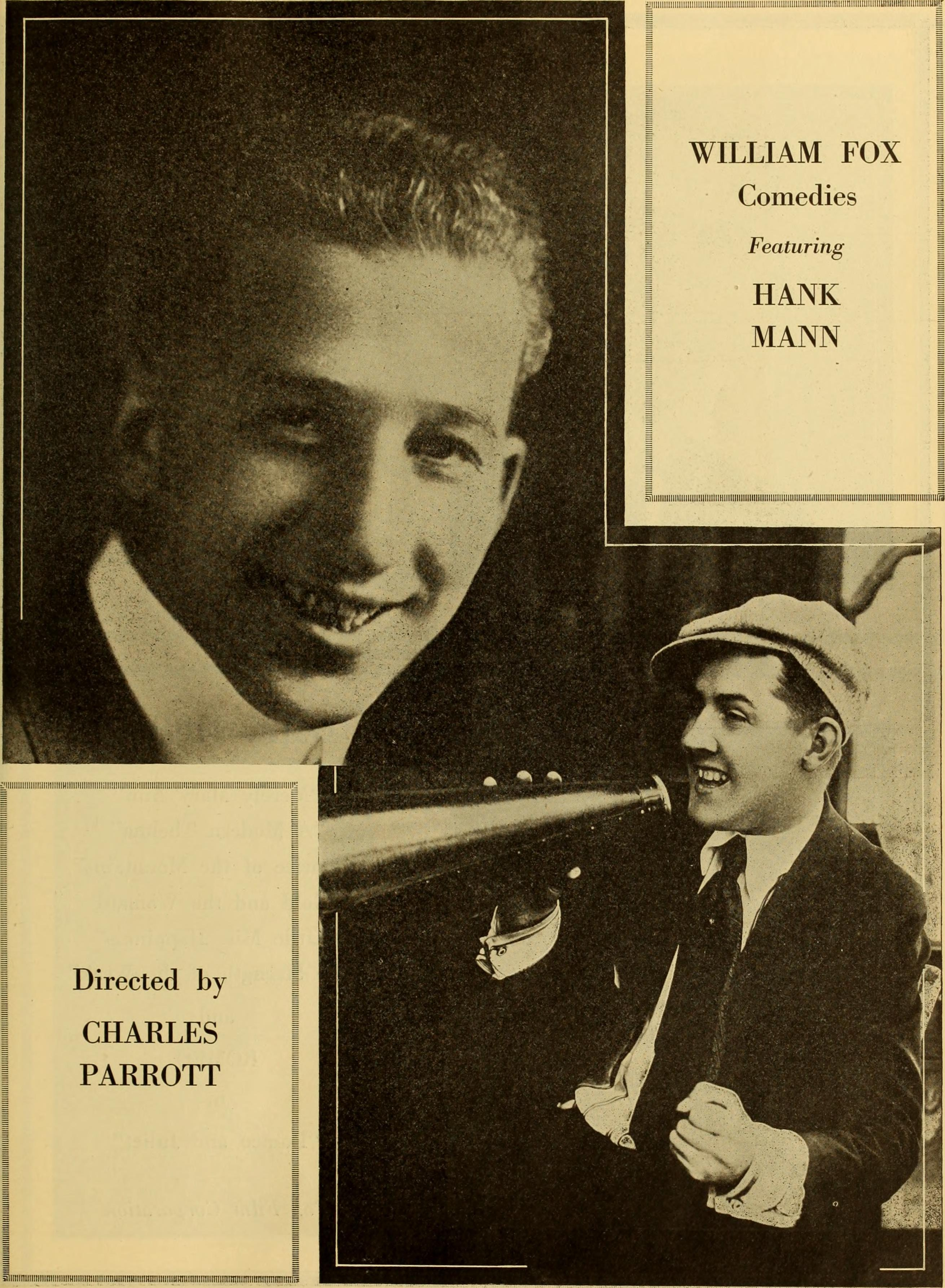 William Fox comedies featuring Hank Mann Title: Motion Picture Studio Directory and Trade Annual (1916) Year: 1916 (1910s) Authors: Motion Picture News, Inc. Subjects: Motion Pictures Film Industry Yearbook nyarc-museumofmodernart Publisher: New York, Motion Picture News, Inc. Text Appearing Before Image: William C. Mueselbach ;Labo ra to rySuperintendentWilliam Fox Studios After graduating from Columbia Uni-versity, where he majored in chemistry,he served five years as chief photographerfor New York Central Lines and otherrailways. He served more than threeyears as superintendent of the Biographlaboratories. Mr. Mueselbach has hisown formulas, and perfected a non-staining Pyro. developer that may beused for several weeks with excellentresults. jmnmrnimimiiil .. m i ■ i m immn mm inmin mill ■ ■ iiiiti i miii mmii n mi ■ mmnn ■ ithiiiittiiii ii i iiiiiitnnii iiiifniiiiiiiinrnrniniTrjiiTiiTTni Be sure to mention MOTION PICTURE NEWS when writing to advertisers October 21, 1916 STUDIO DIRECTORY 177 ili inn ii mi milium m mm iiiiiimiiiiiiiimiiiiimmnimmiimiiiiiiimwtijr Directed by CHARLESPARROTT WILLIAM FOX Comedies Featuring HANK MANN Text Appearing After Image: aliiiiiniiiiiiiiiimimiiiiHiiiiiiiniiiiiinnuiiniiuiiiiinniiiiiiiiiamiiiniiiiiiiiimiinraminTiimimmiraiinis Be sure to mention MOTION PICTURE NEWS when writing to advertisers 178 MOTION PICTURE NEWS iiiiiiiiiiiiiiiiiiiiiiiiiiiiiiiiiiiii Vol. XIV. No. 16. Section 2 If 1 i